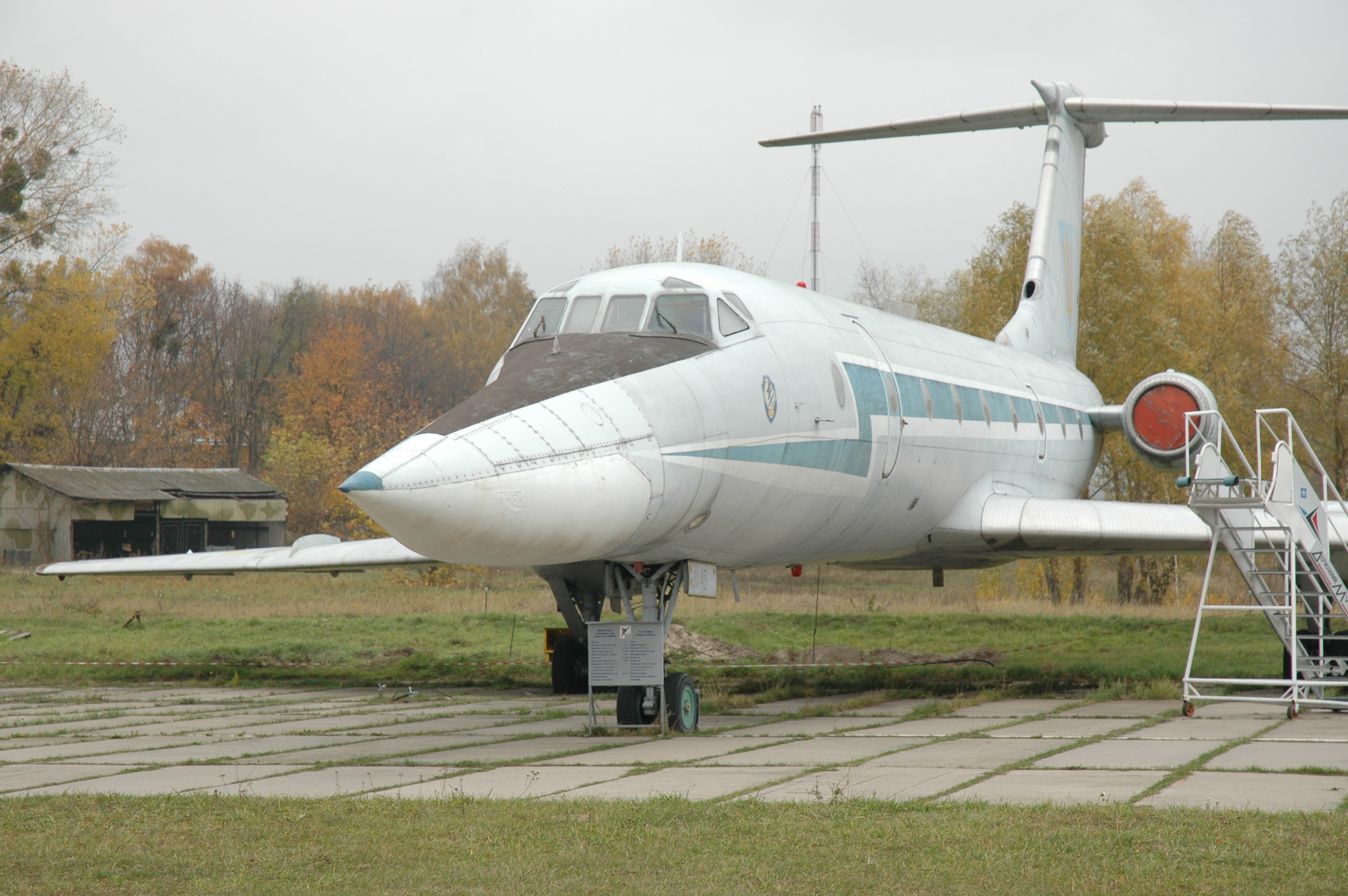 Tupolev Tu-134UBL, a bomber aircrew training version of Tu-134 airliner (displayed at the Ukrainian State Aviation Museum in Kyiv)